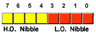 Nibbles in a byte